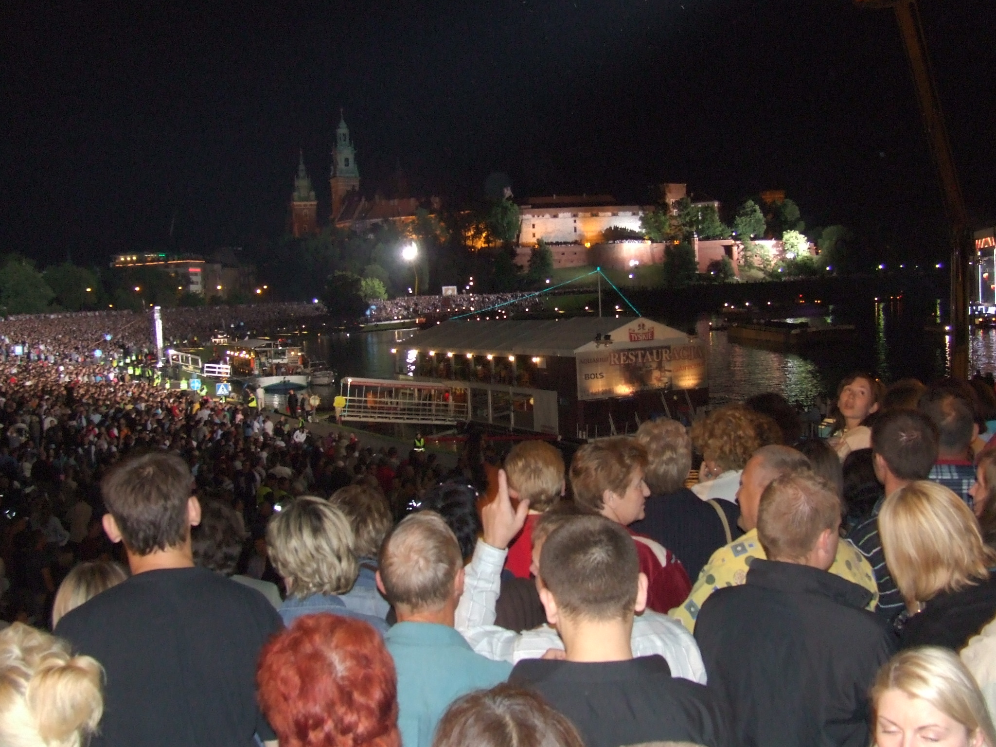 wreathes in cracow